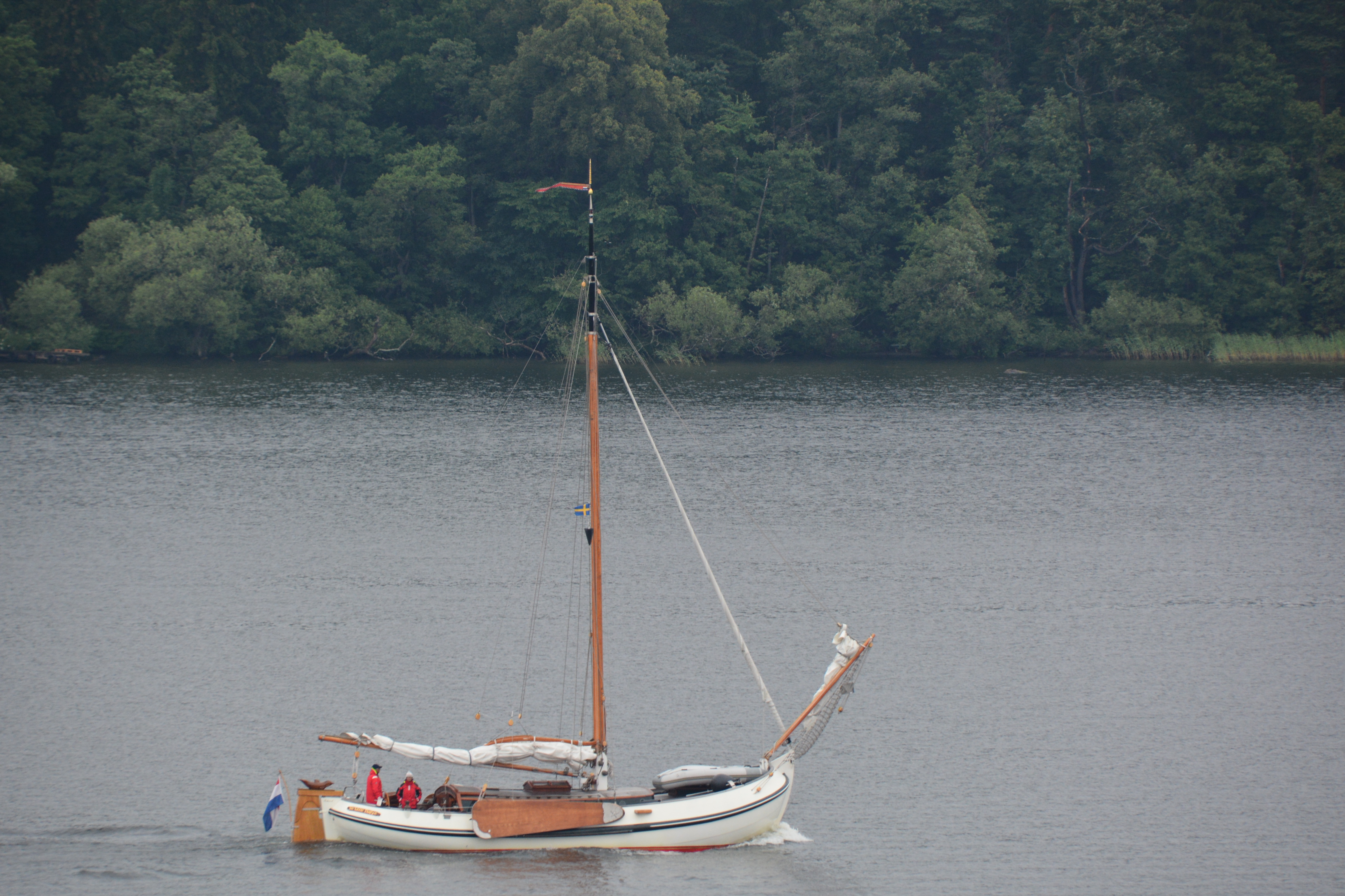 Tjalk, Stockholm, Lake Mälaren